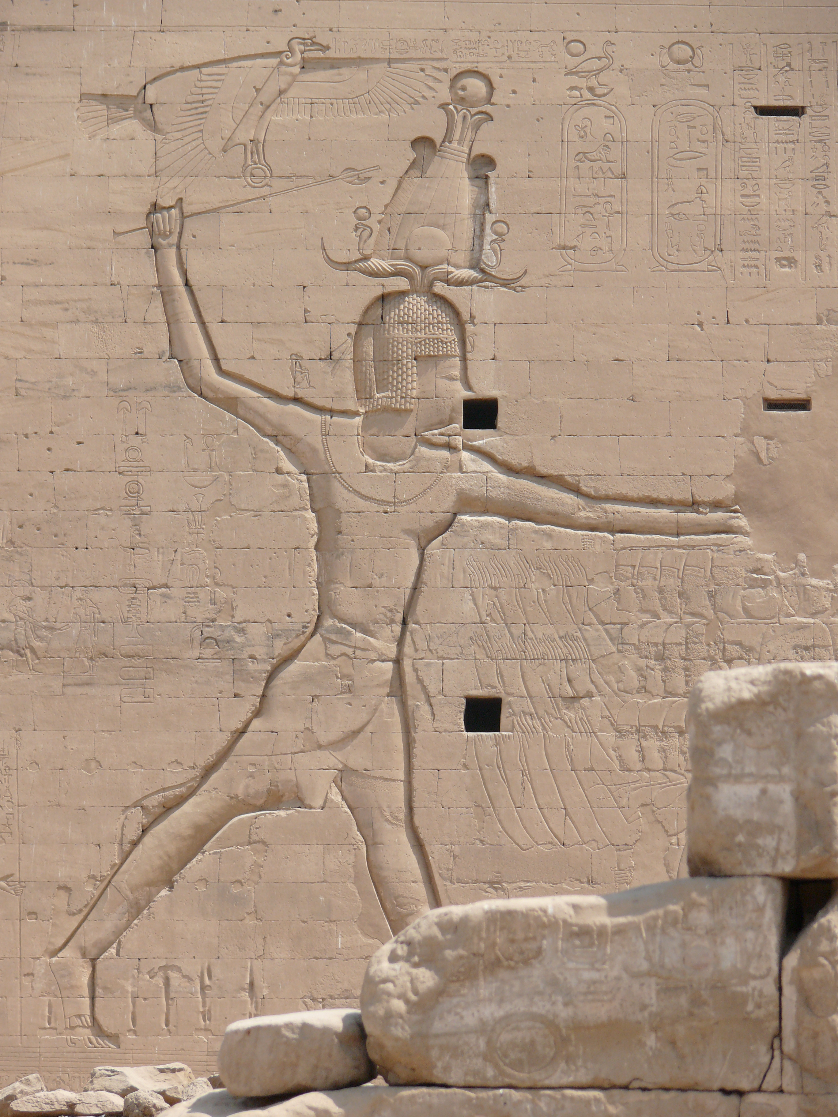 The temple of Horus at Edfu.